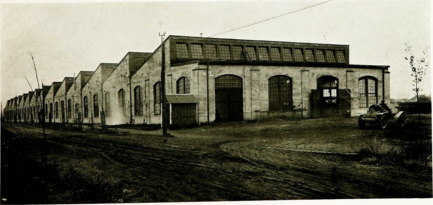 Title: Wilkes-Barré, the diamond city; a study of its remarkable progress as indicated by its growth during the last five years Year: 1911 (1910s) Authors: Greater Wilkes-Barre Chamber of Commerce Subjects: Publisher: (Wilkes-Barre : Printed by the record) Text Appearing Before Image: P. R. R. Electric (rune, for HandlingHeavy Freight (. R. R. of N. J. Electric Crane, for HandlingHeavy Freight reached either by trolley, steam or third-rail lines, together with portions of adjoining countiesfor which Wilkes-Barre is the natural market place, being the largest city within easy reach. JOBBING HOUSES FIND PROFITABLE FIELD Wilkes-Barres large suburban population, together with its excellent railroad facilities, makesit an exceeedingly strong jobbing centre. Plight railroads, including two third-rail freight-carryingsystems, centre in the city. Two steam roads have their termini here. The strategical value ofthis situation is becoming yearly more apparent and the city is adding yearly to the number of its Text Appearing After Image: The Matheson Autorn ,bile (... Plant (Located at Forty Fort). A Suburban Industrial Concern Wilkes-Barres Annual Factory Output is Worth $17,000,000 jobbing houses. Milling interests are also strongin Wilkes-Barre and vicinity and the city is theheadquarters of the oldest and largest millingfirm in the state and of the Pennsylvania MillersMutual Fire Insurance Company. There areone hundred and two wholesale houses in Wilkes-Barre, classified as follows : Grocers, 10 ; Grocers Specialties, 6 ; Meats,7 ; Dry Goods and Notions, 11 ; Boots, Shoes and